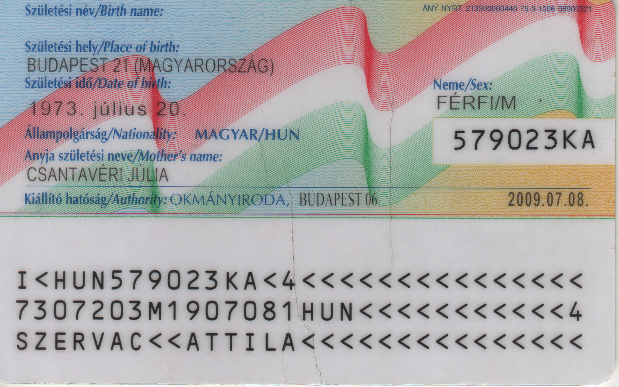 Official ID card for Attila Szervác EU citizen - back